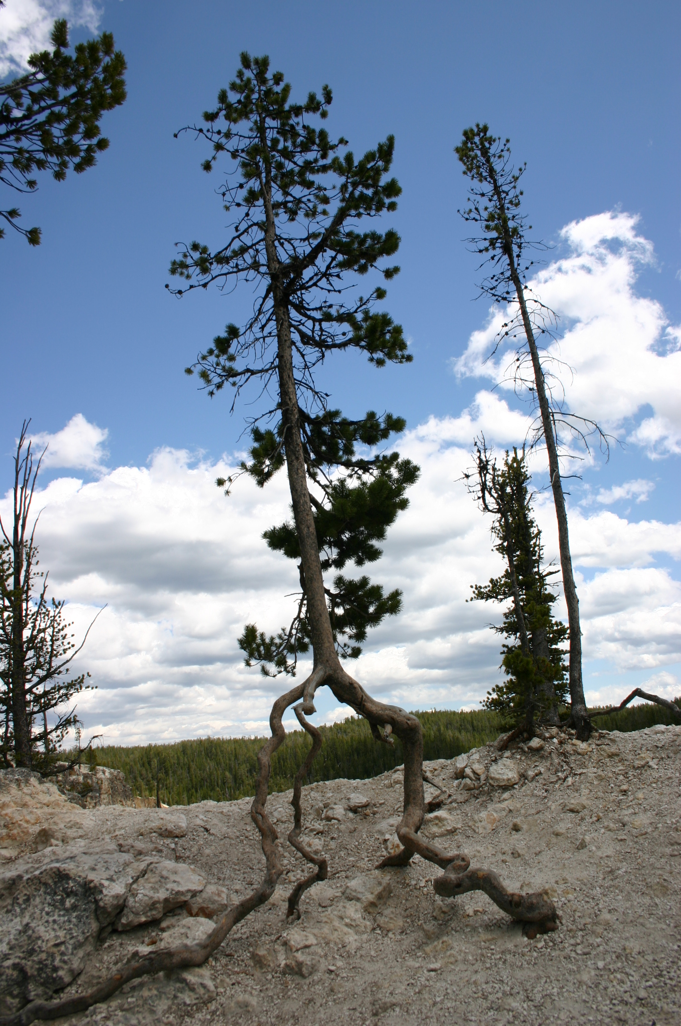 Pinus contorta subsp. latifolia. This tree stands as a living testimony to the extent of soil erosion at the canyon rim. Taken at Lookout Point of the Grand Canyon of the Yellowstone North Rim, Yellowstone National Park, Wyoming, USA